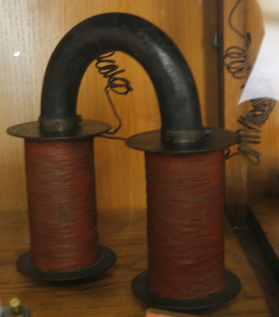 Electromagnet, second half of 19th century. Located at Ed. Marconi, physics department, Rome university "La Sapienza".